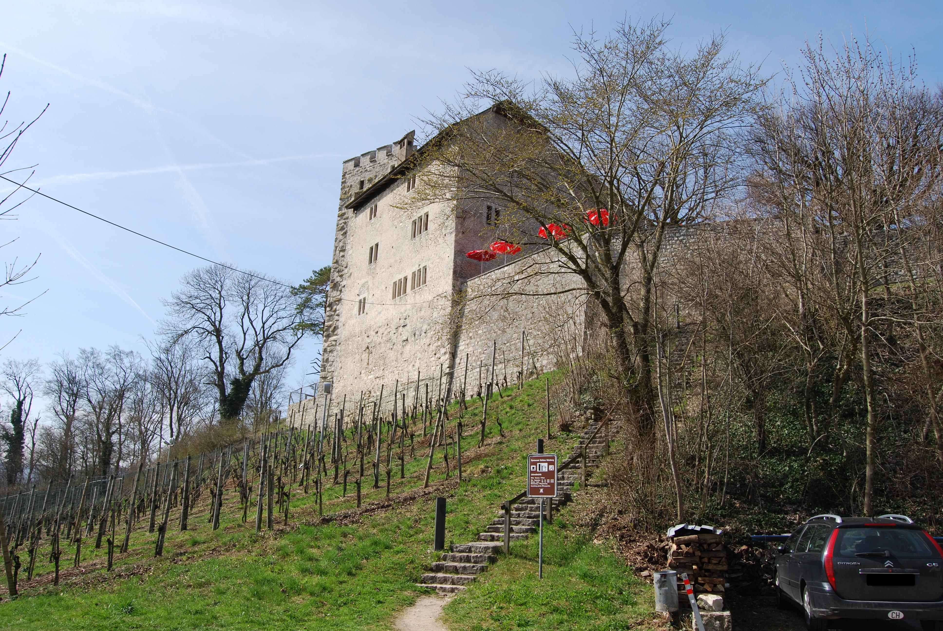 Castle Habsburg, canton of Aargau, SwitzerlandEsperanto: Kastelo Habsburgo, Kantono Argovio, Svislando